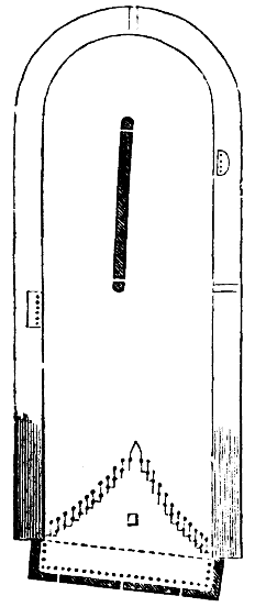 Reconstructed plan of the Hippodrome in Olympia